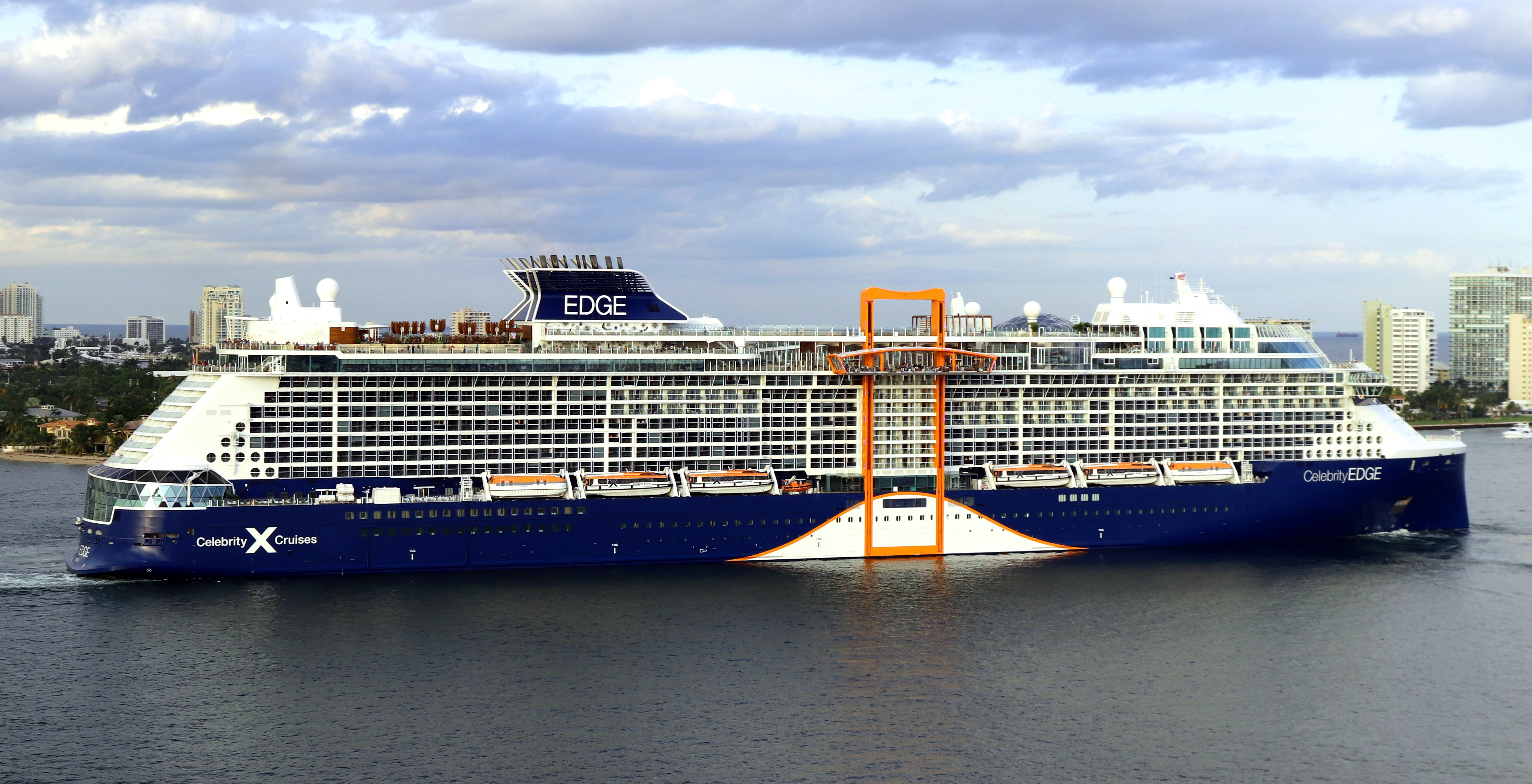 Celebrity Edge leaving Port Everglades in Fort Lauderdale, FL in November 2018. Her orange Magic Carpet and its track can be seen along the starboard side of the ship.